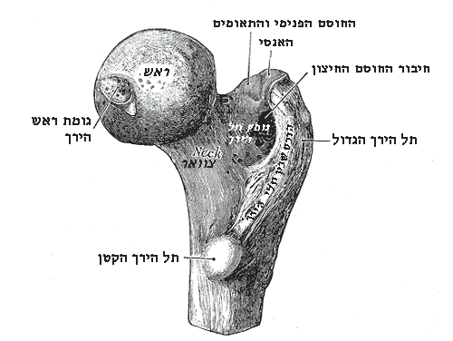 Upper extremity of right femur viewed from behind and above.